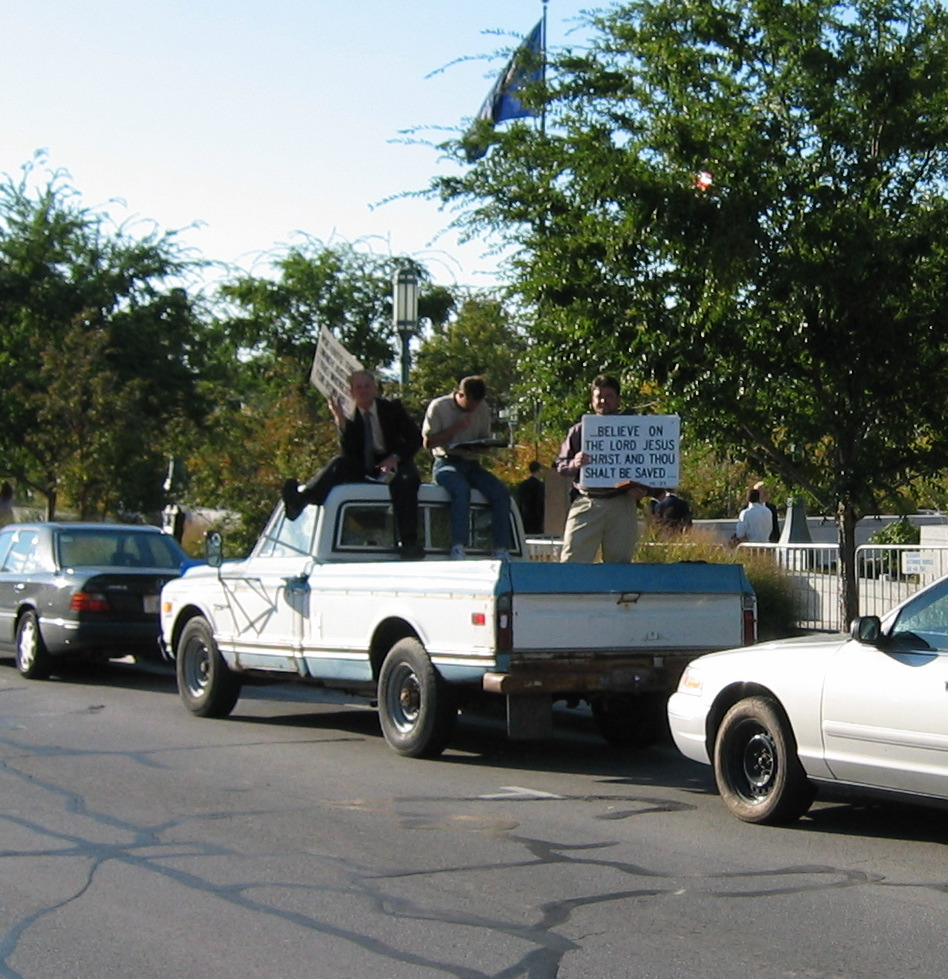 Protesters during an LDS General Conference in October 2004